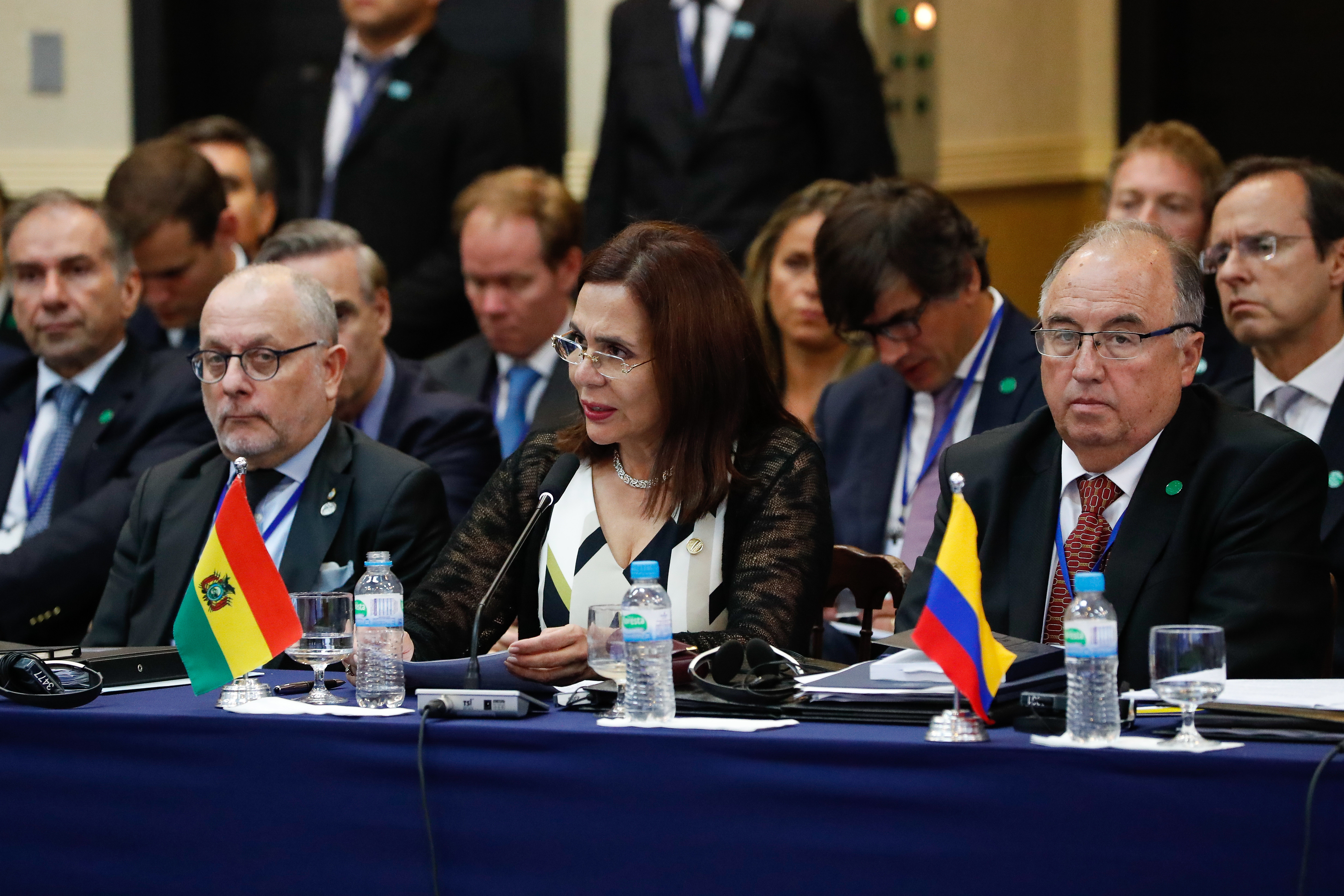 (Bento Gonçalves - RS, 05/12/2019) Palavras da Ministra de Relações Exteriores do Estado Plurinacional da Bolívia, Karen Longaric.\rFoto: Alan Santos/PR